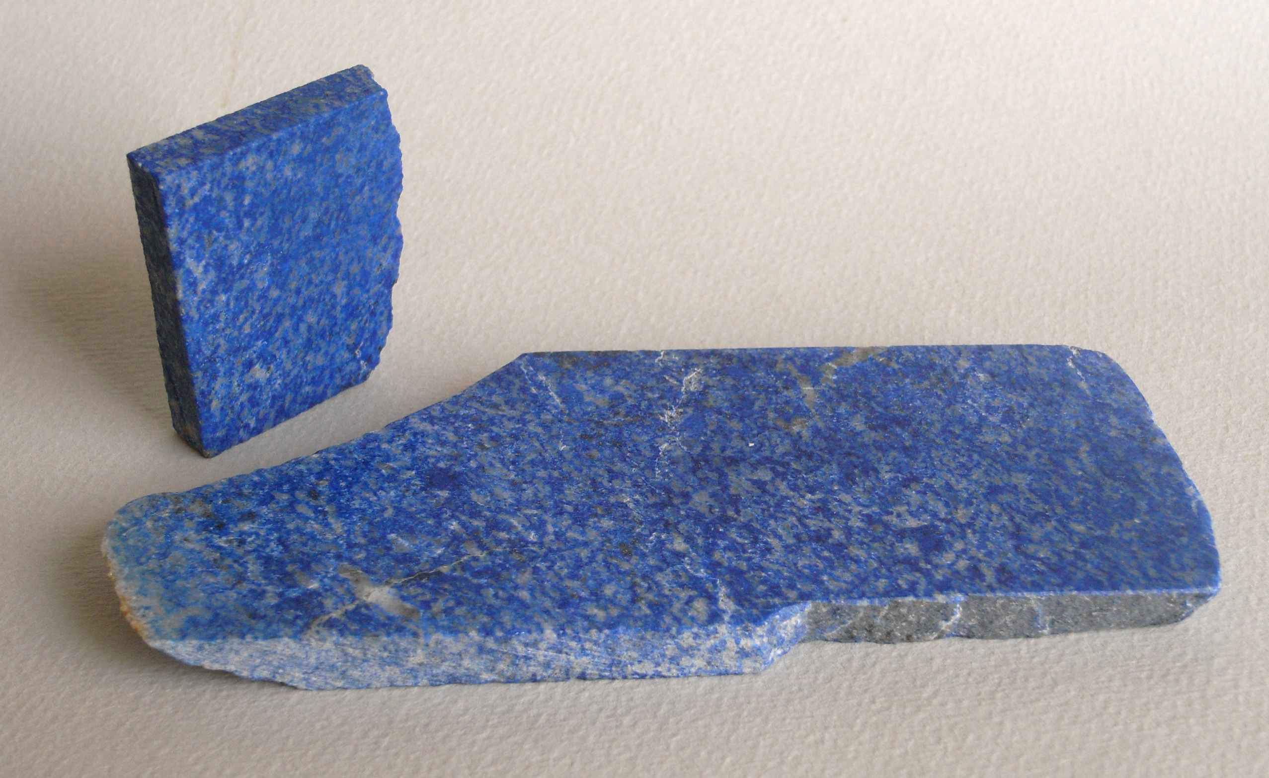 Lapis lazuli from the Deposit of Badakhshan Province (Afghanistan)